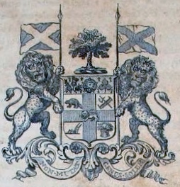 Coat of Arms of the Canada Company (1828-1953)